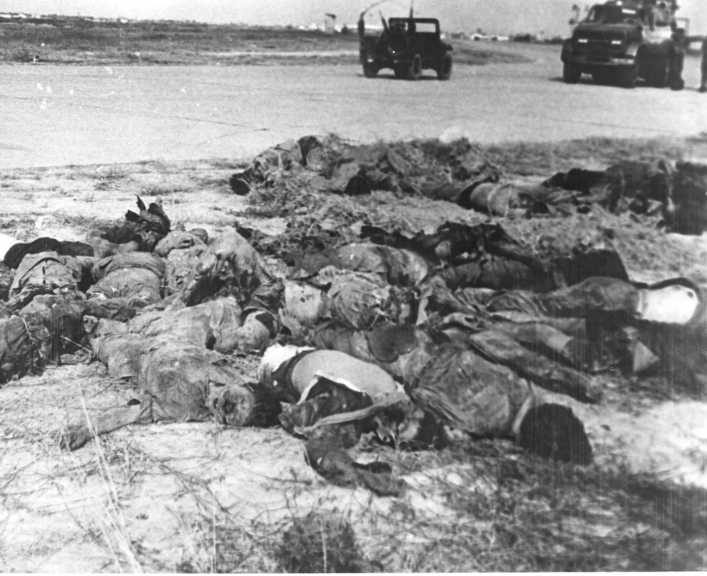 AVSG-S-1031-52/AGA68 RVN Saigon Viet Cong that were killed during an attempted breakthrough of the perimeter at Tan Son Nhut Air Base.